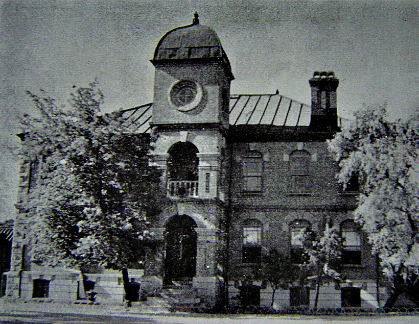 Nakwon Building, Seoul Jongno-gu, Nakwon-dong 282 Street the building was in 1947